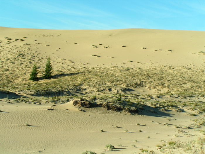 Barchan in Charskie Peski.